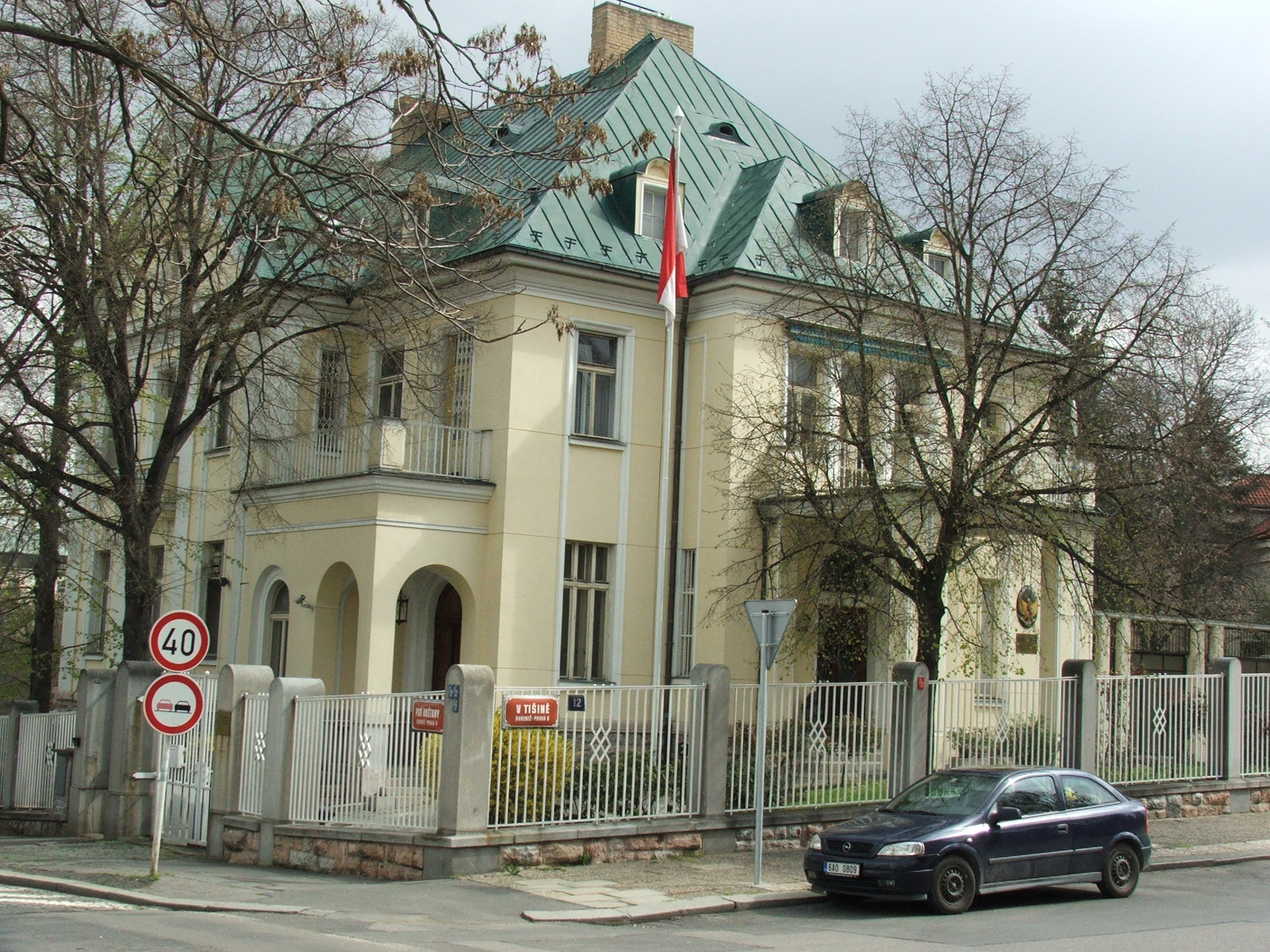 Residen ce of the Embassy of Indonesia in Prague - Bubeneč, Czechia.